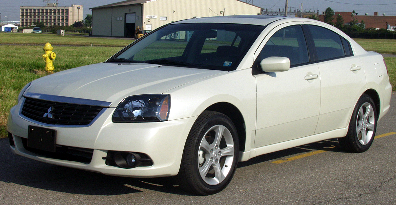 2009 Mitsubishi Galant photographed in USA.